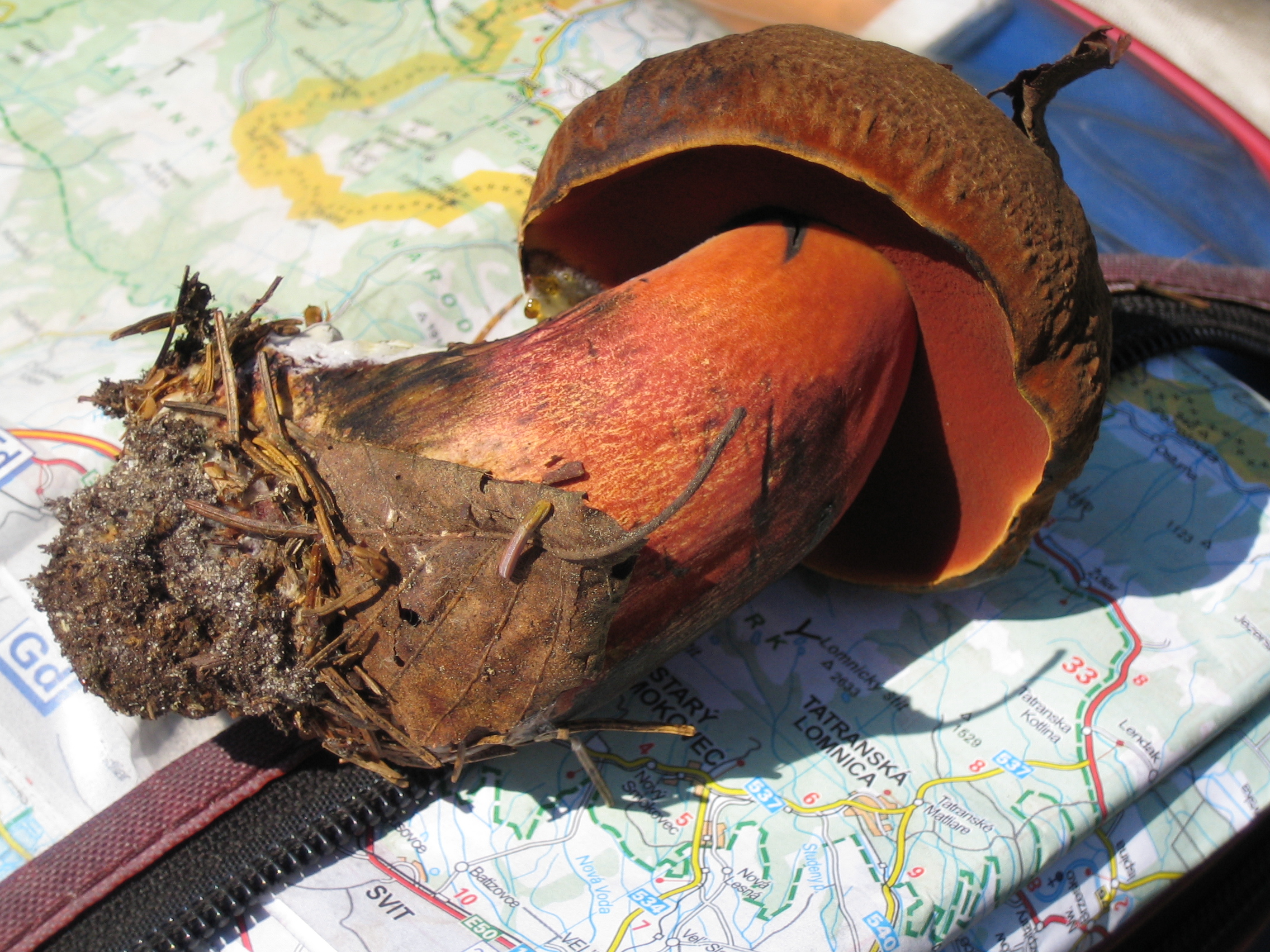 Boletus_erythropus